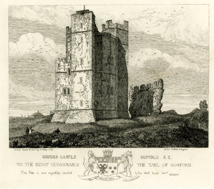 "Orford Castle, Suffolk, south east," etching, by the British printmaker Henry Davy. 249 mm x 276 mm. Courtesy of the British Museum, London.